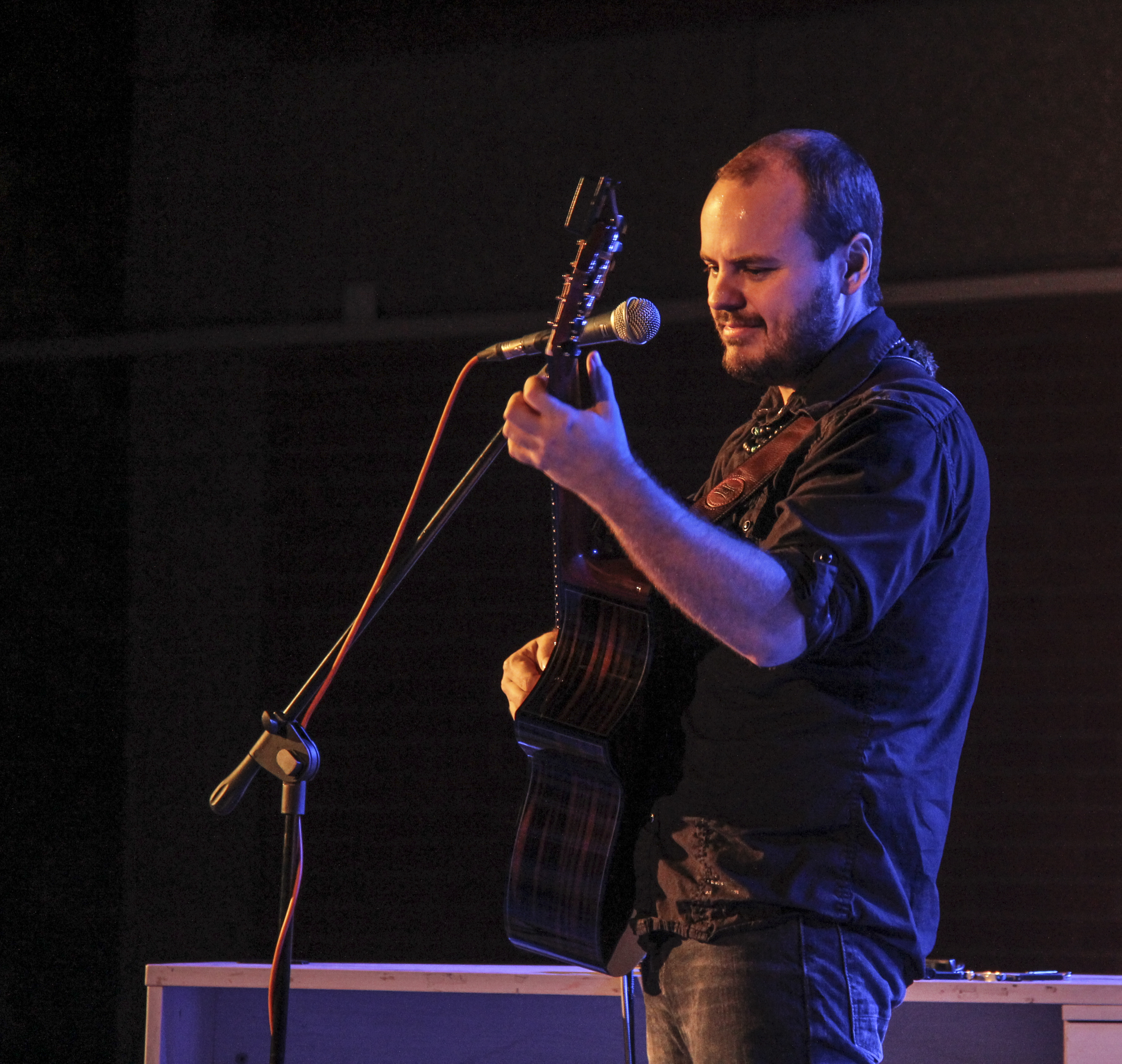 Andy McKee